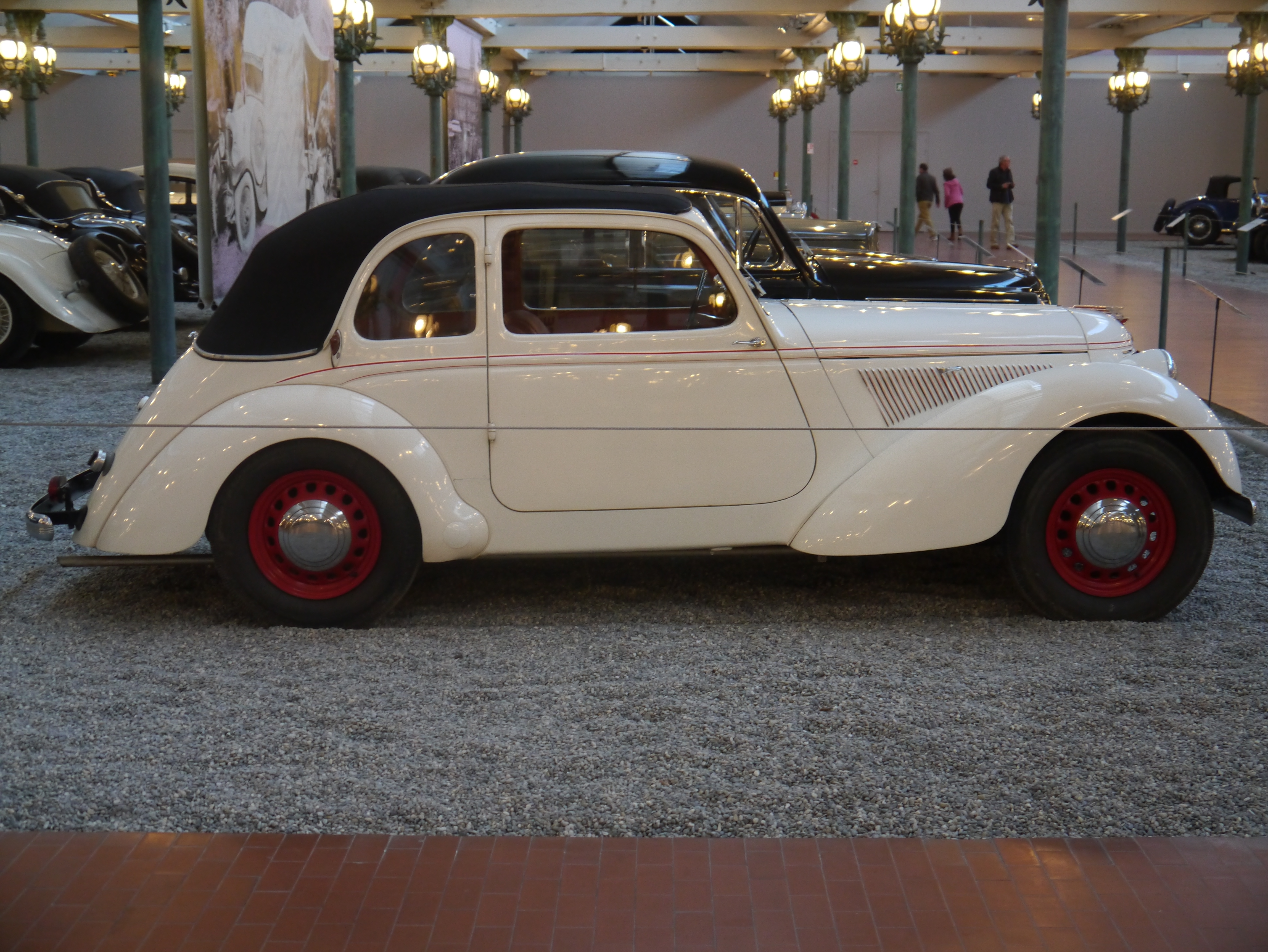 Cité de l'Automobile/National Automobile Museum, Mulhouse, Alsace, France